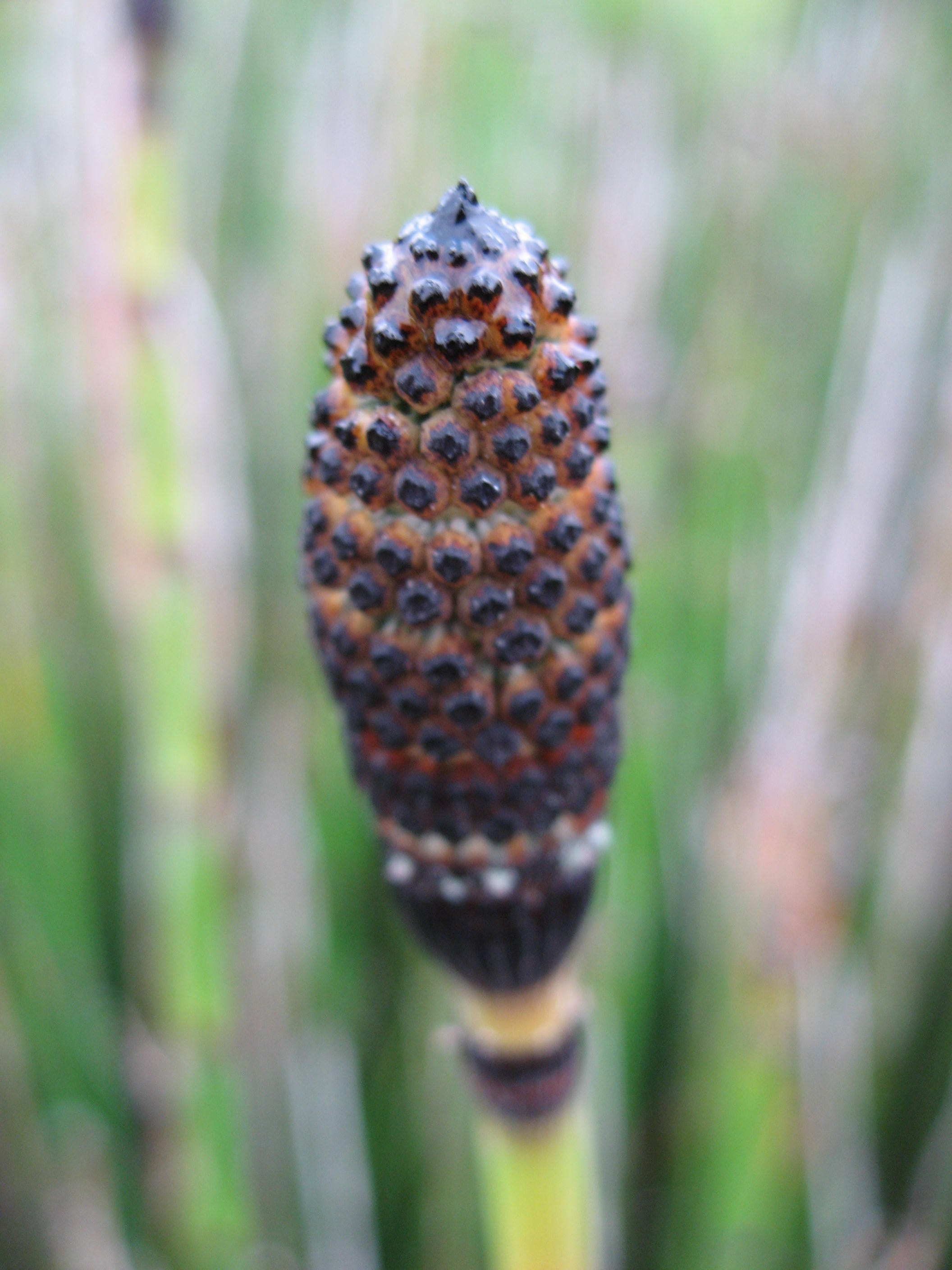 Equisetum hyemale, syn. "Equisetum camtschatcense" nom. nud., in Parc floral de Paris Map: 48° 50' 19" N 2° 26' 33" E Warning: taggued Equisetum camtschatcense by the parc's botanists